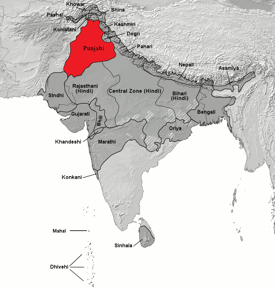 Punjabi Language in Indo-Aryan family